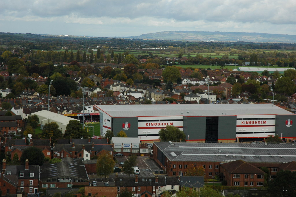 Kingsholm, GloucesterKingsholm, home of Gloucester Rugby Club, viewed from the tower of Gloucester Cathedral. Bredon Hill in the neighbouring county of Worcestershire can be seen on the horizon. To the left the hotel at Tewkesbury Park can be seen alongside the tower of Tewkesbury Abbey, both are highlighted by the sun.